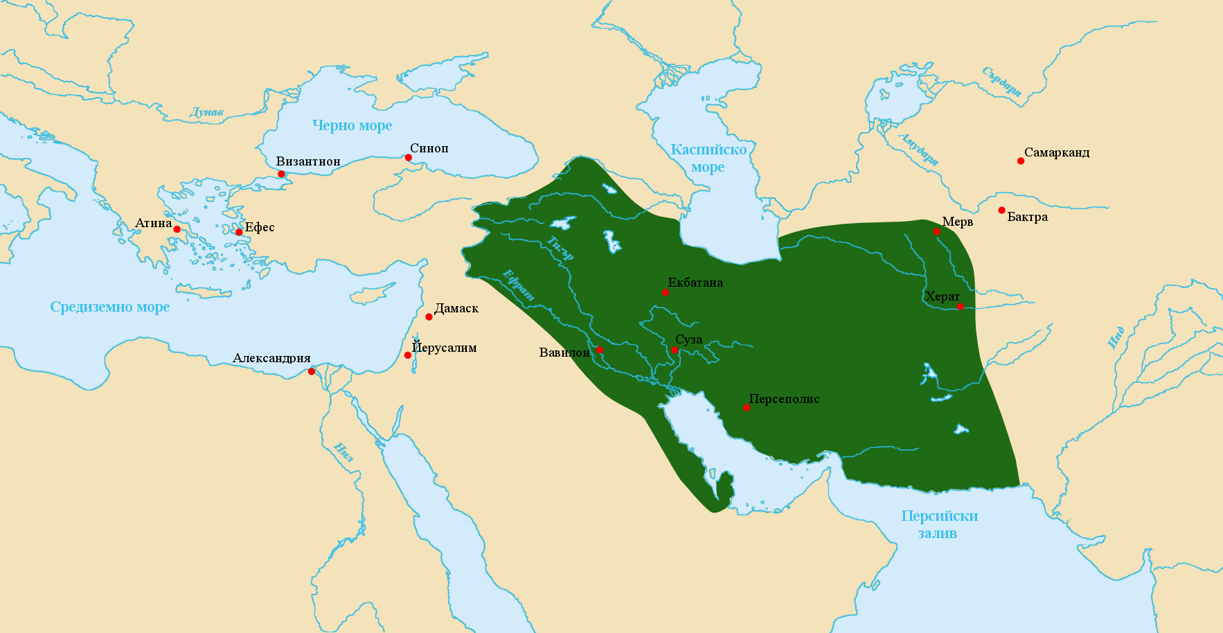 Map of Parthian Empire ca 60 BCE in Bulgarian language.